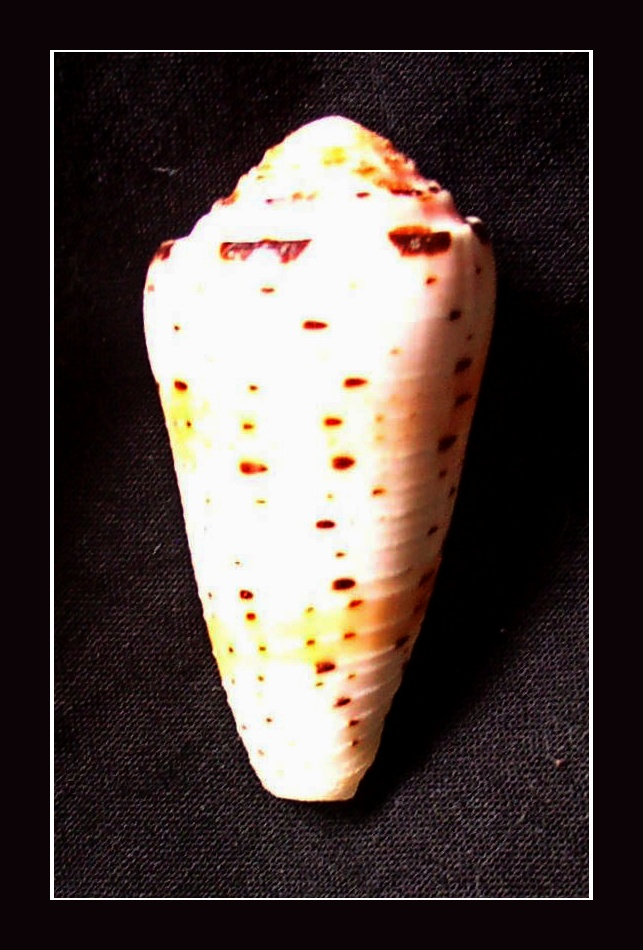 Clouded Cone - Conus floccatus